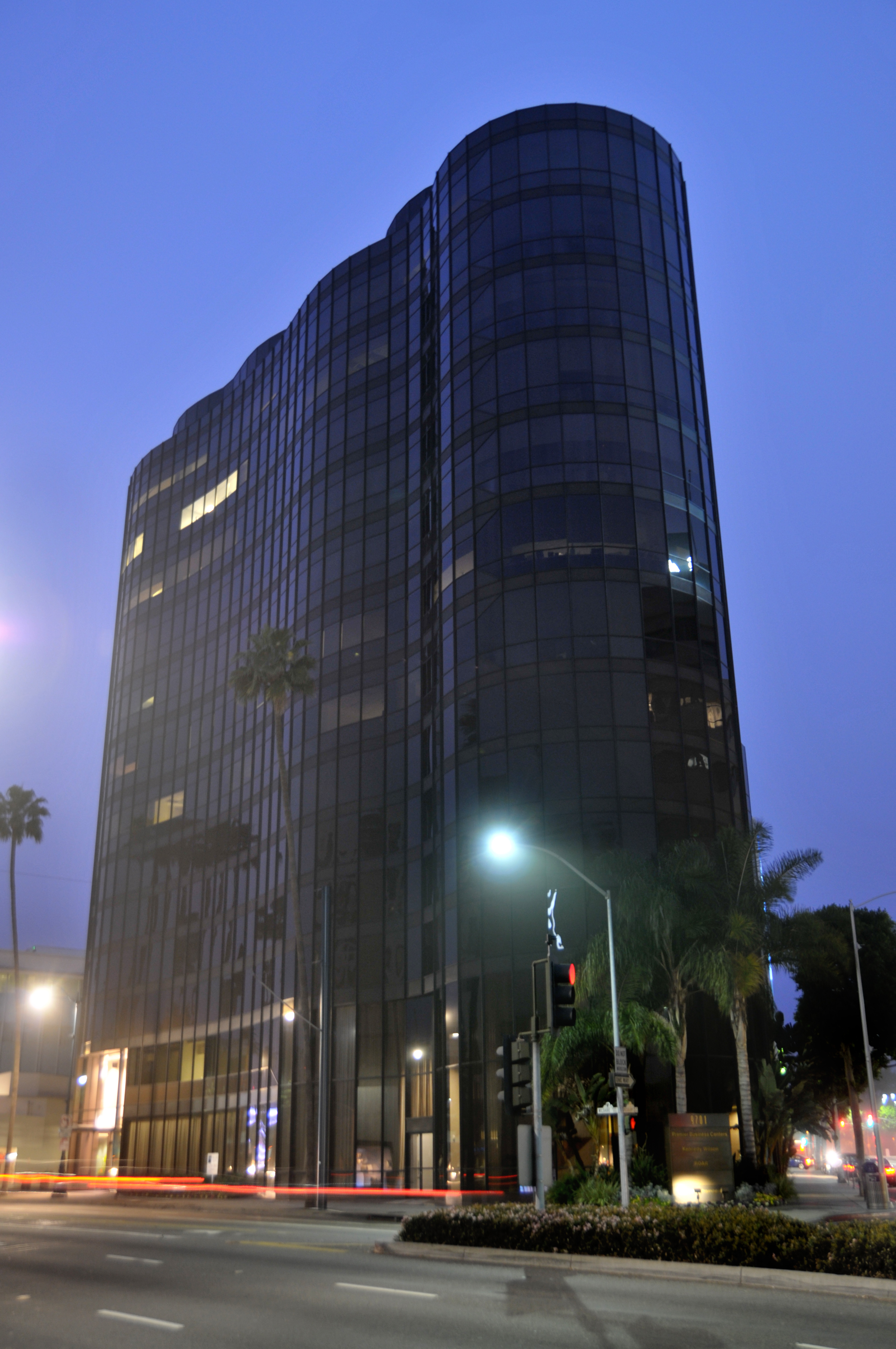 Roxbury Plaza, Beverly Hills, California - Photo by Glenn Francis of